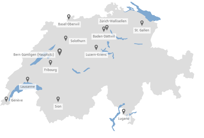 Map of Privera regional offices